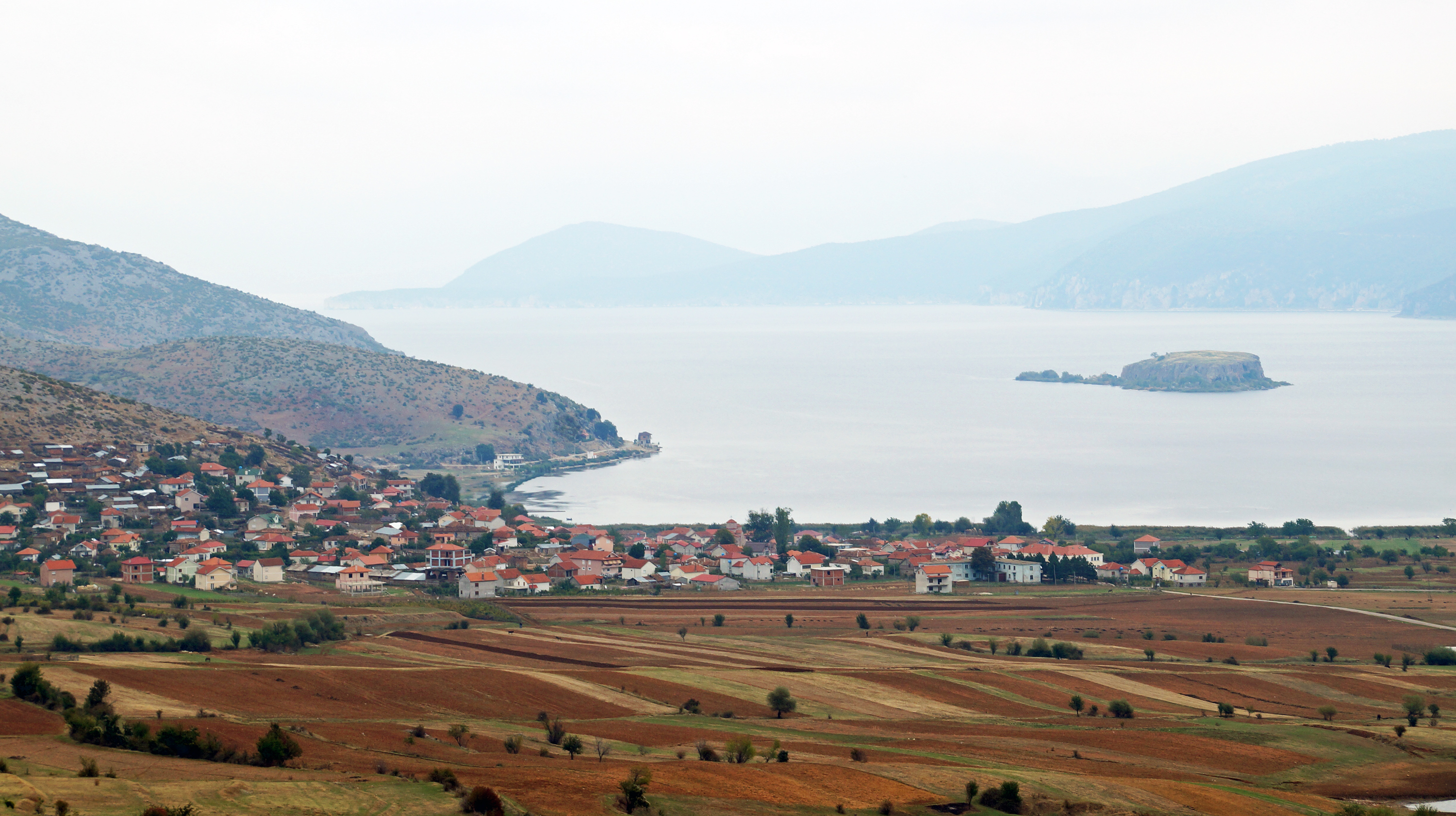 The village of Pustec/Liqenas on the shore of Lake Prespa in Albania. Island Maligrad in the lake.